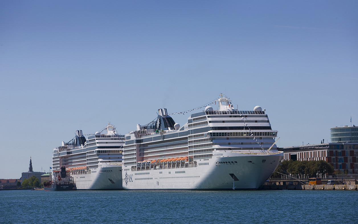 Cruise ship in Copenhagen